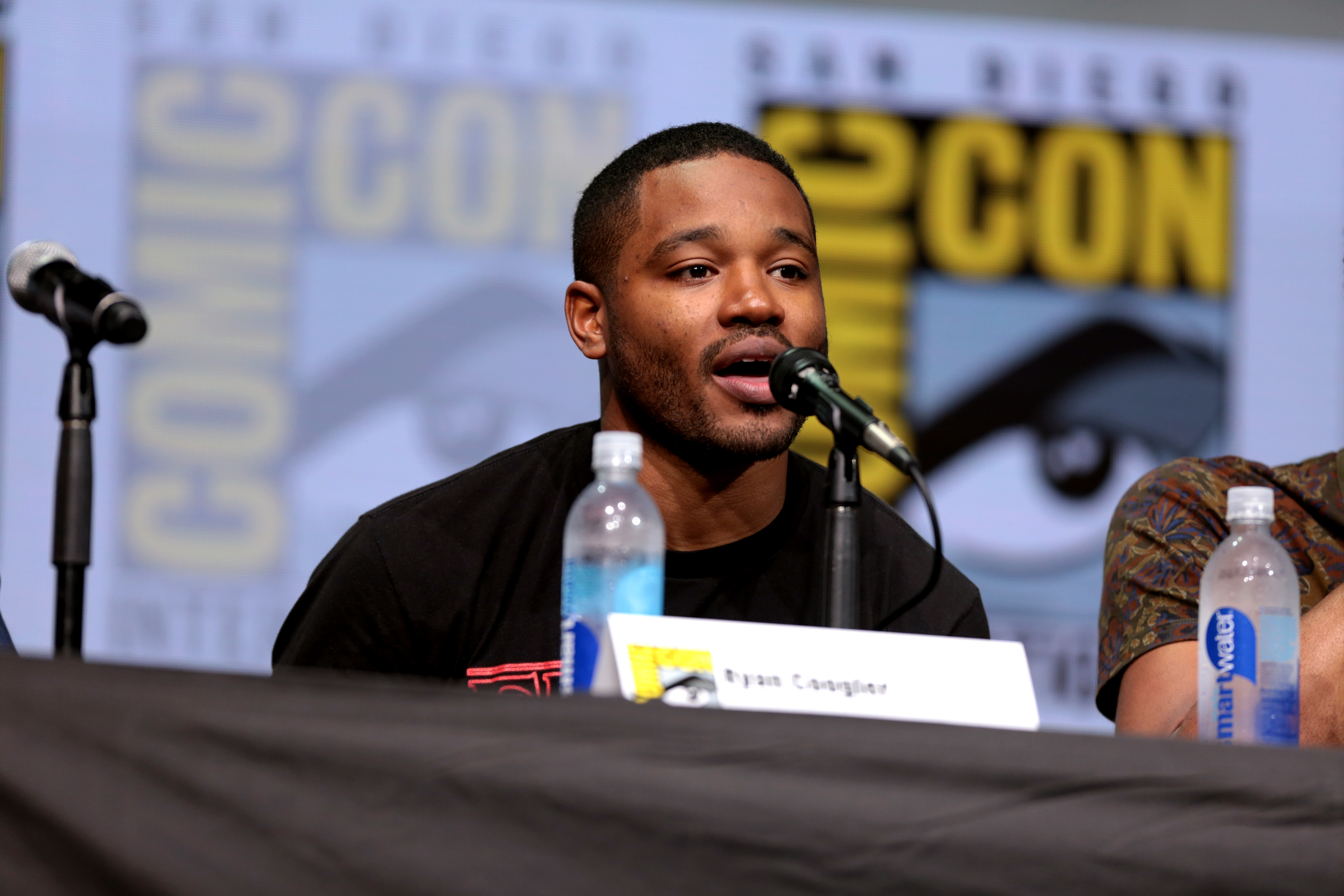 Ryan Coogler speaking at the 2017 San Diego Comic Con International, for "Black Panther", at the San Diego Convention Center in San Diego, California.